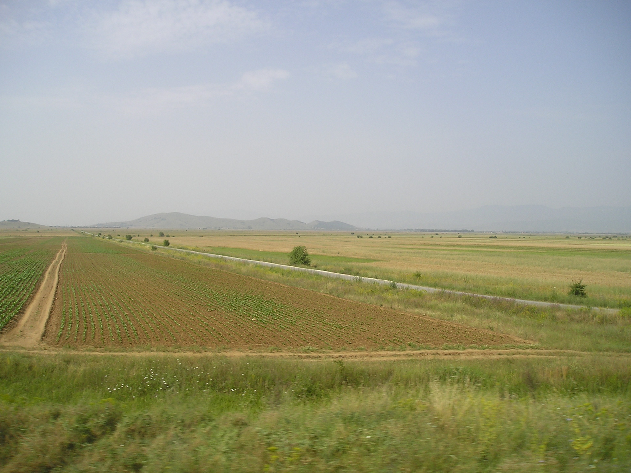 Kotlina Prileosko Pole, region Pelagonija, Macedonia